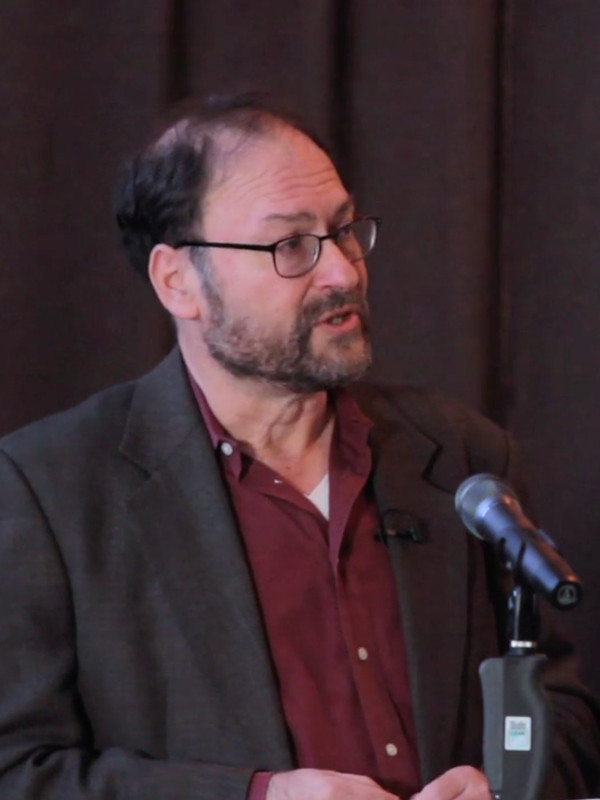 J. Hoberman delivering the keynote address at the 2012 Milwaukee Film Festival